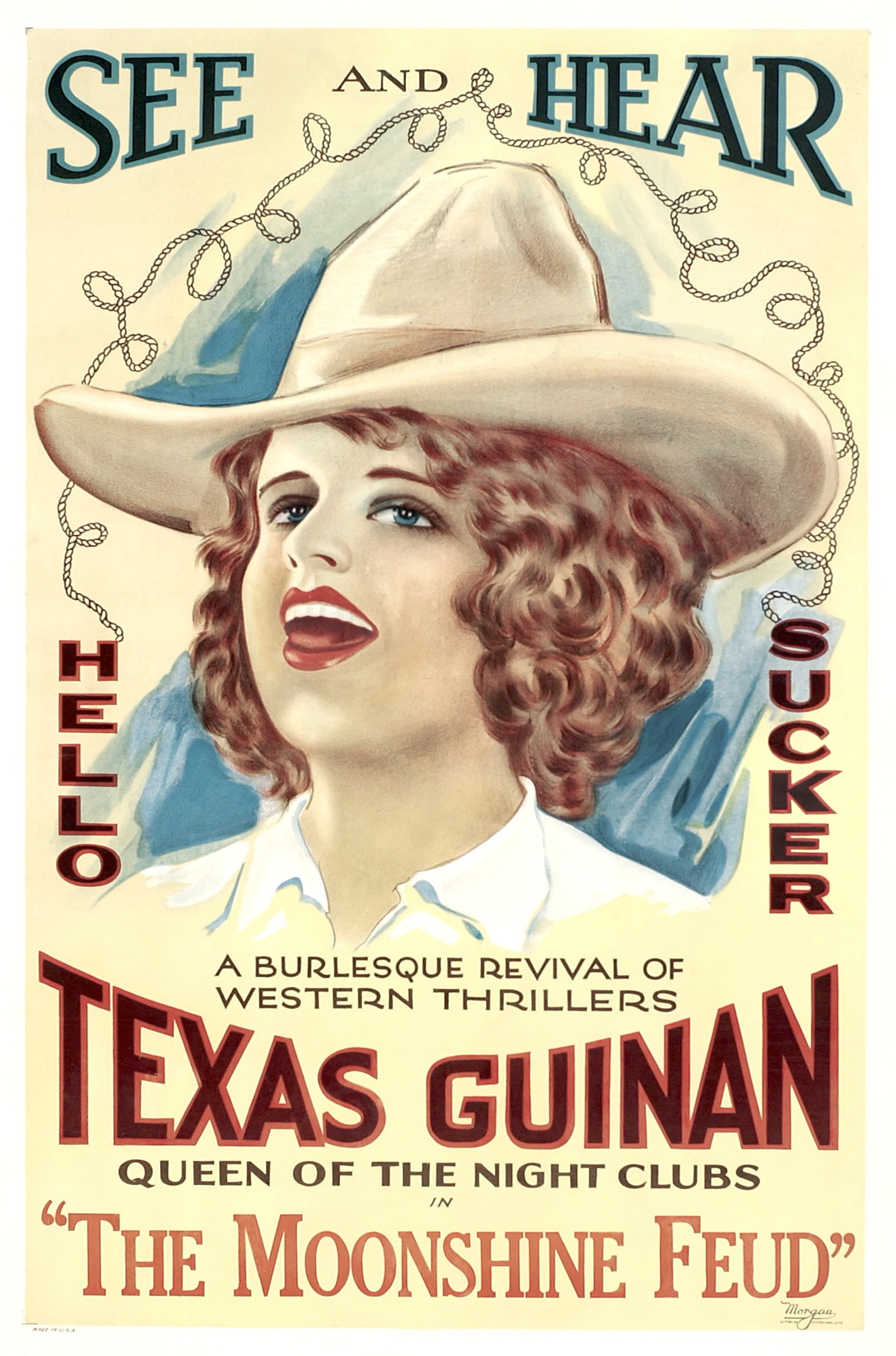 The Moonshine Feud is a 1920 silent film western short starring Texas Guinan. This is a lobby poster for the film.